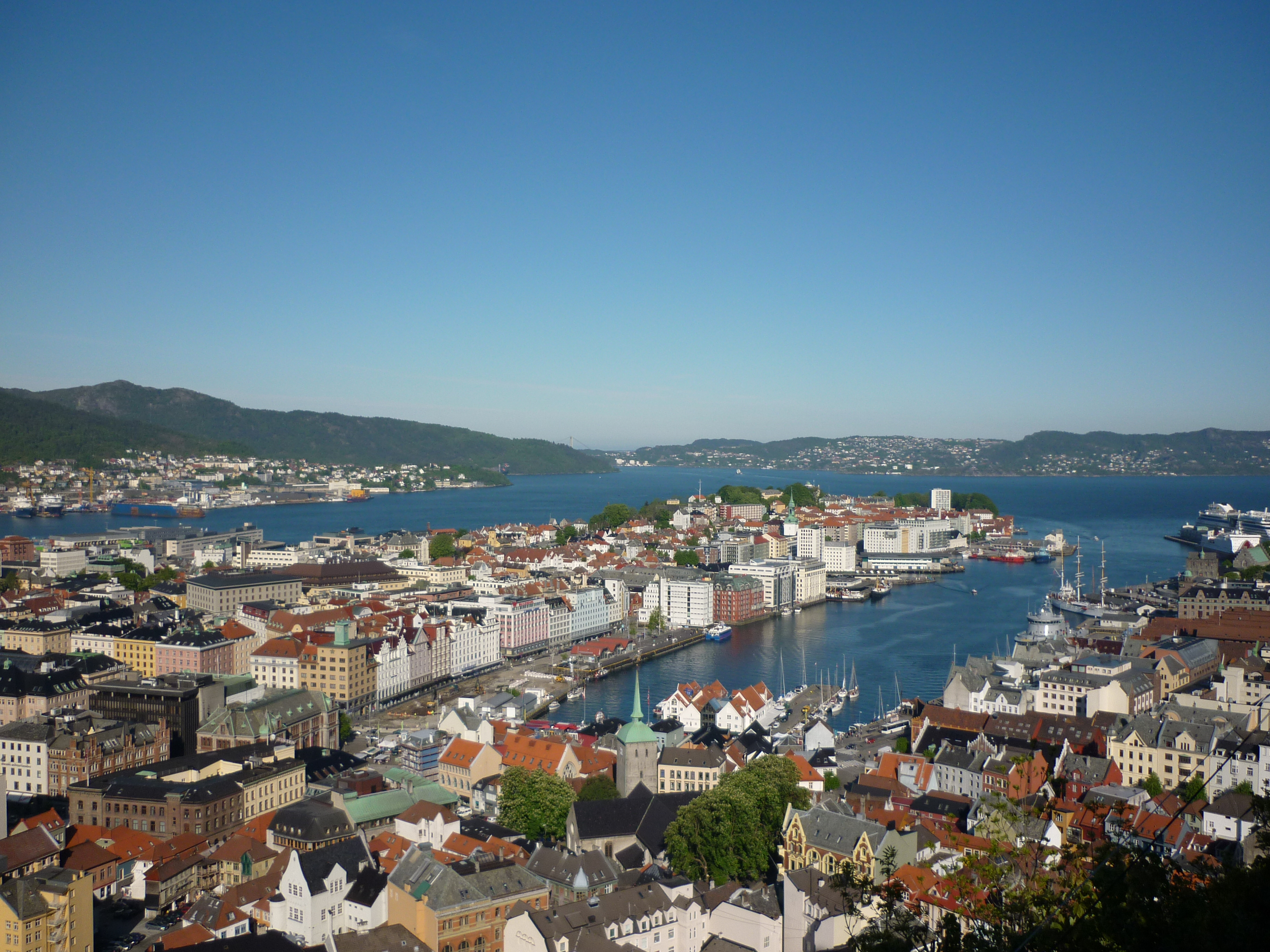 Bergen city center in the morning in june